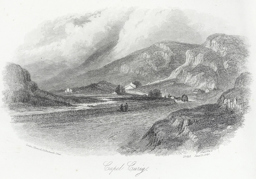 View of Capel Curig. Horse-drawn carriage and cottages in background.